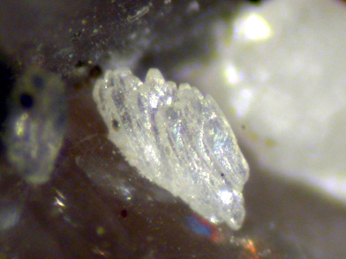 A 1 mm group of white crystals on orthoclase self collected june 2006